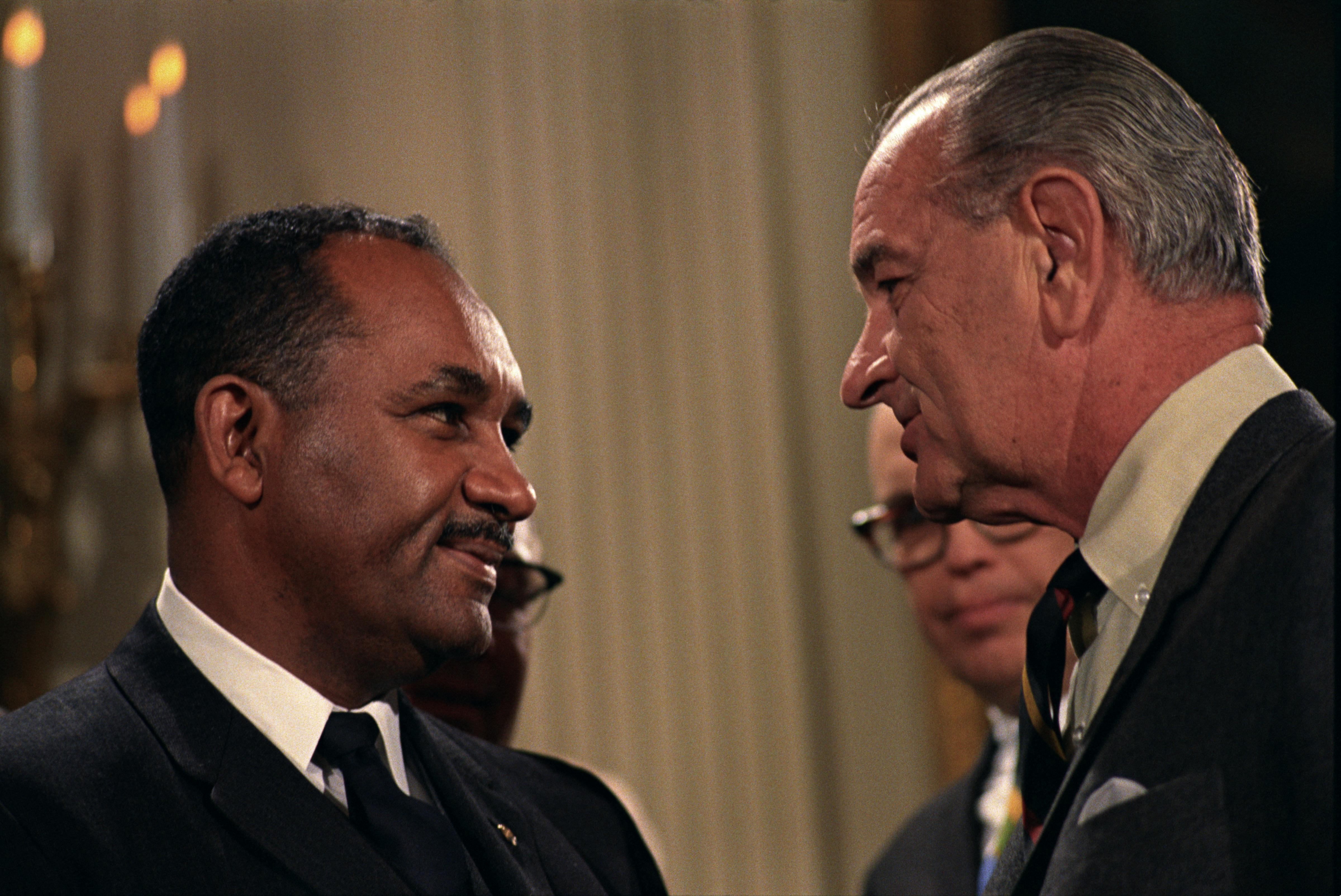 President Lyndon B. Johnson and Clarence Mitchell